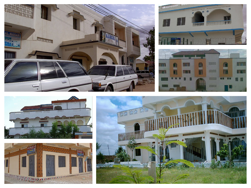 Montage of places in Galkayo, Somalia.